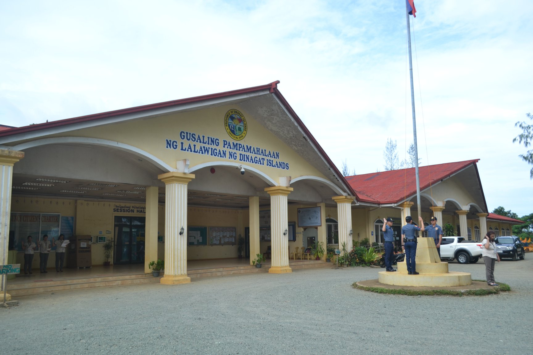 Dinagat Islands Provincial Capitol during flag ceremony. Owned by Provincial Information Office of Dinagat Islands, and it is public domain.